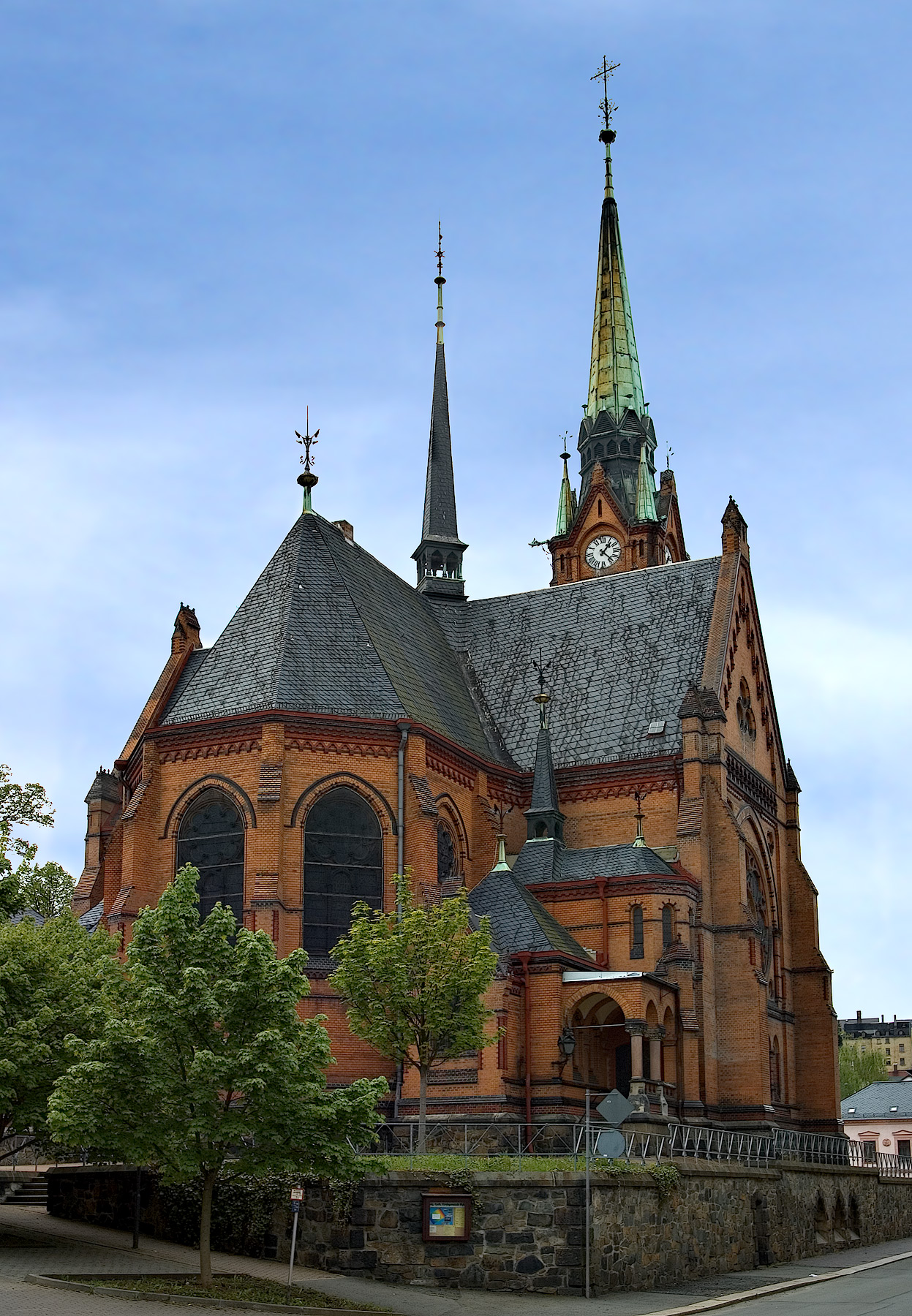 This image shows the church in Mylau (Saxony, Germany).